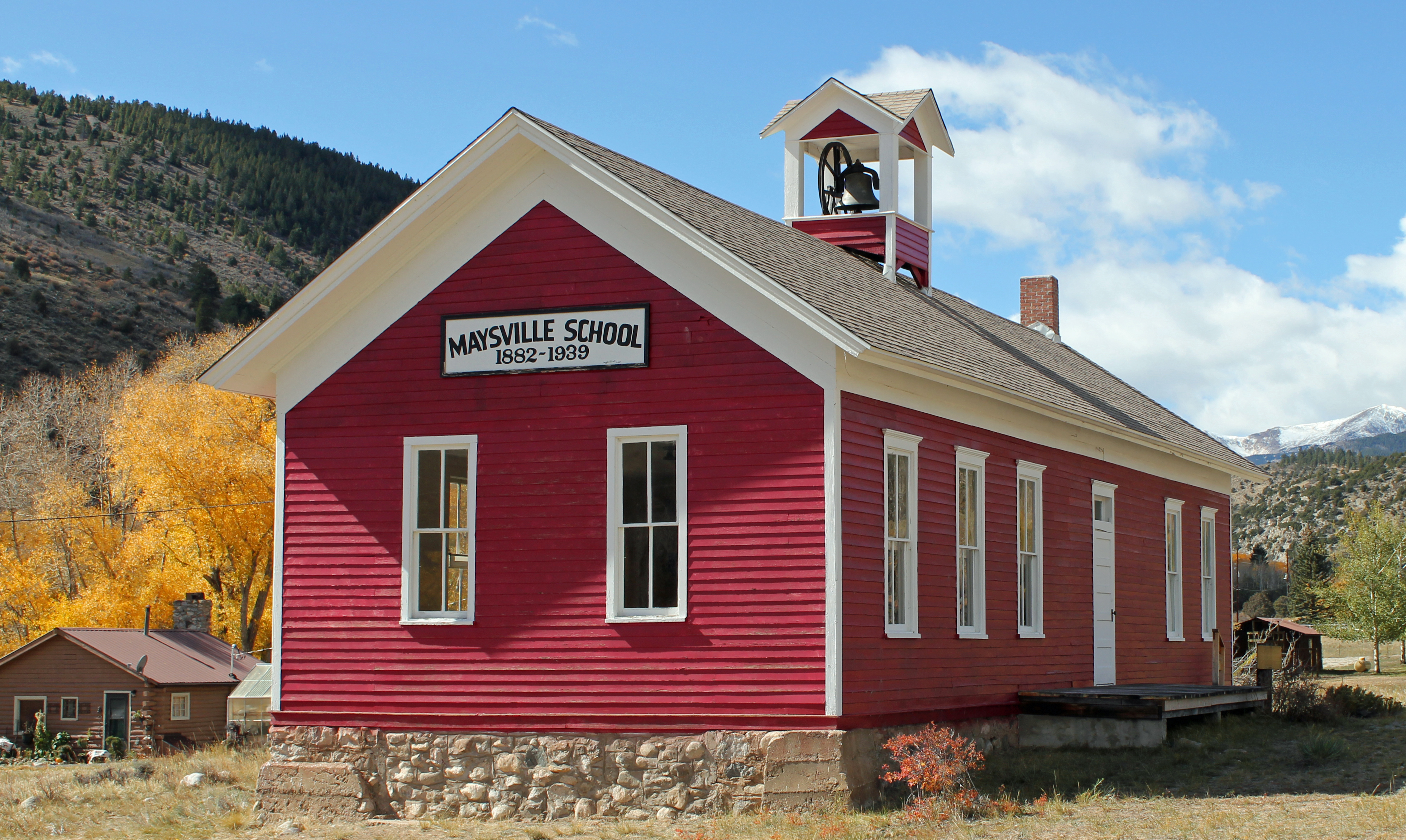 The Maysville School, located in Maysville, Colorado. The property is listed on the National Register of Historic Places.